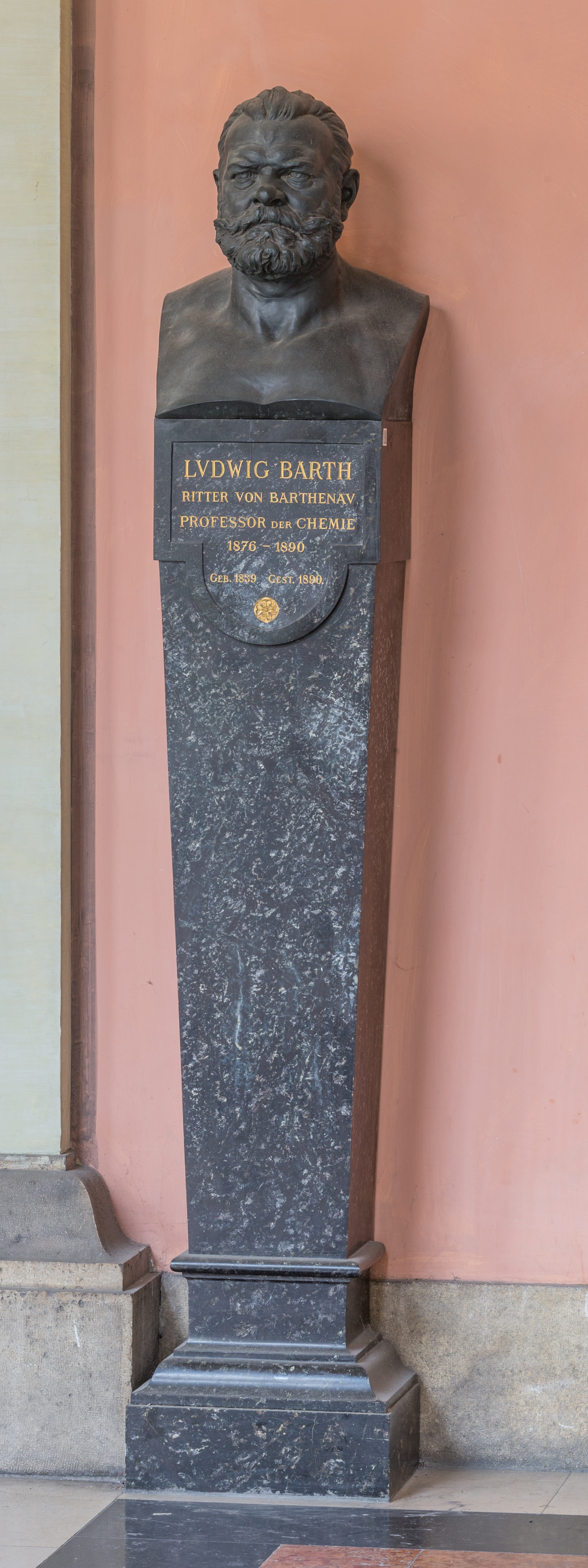 Ludwig Barth von Barthenau (1839-1890), bust (bronze) in the Arkadenhof of the University of Vienna, (Maisel# 47). Artist: Heinrich Natter (1844-1892), unveiled 1892 The making of this work was supported by Wikimedia Austria. For other files made with the support of Wikimedia Austria, please see the category Supported by Wikimedia Österreich.